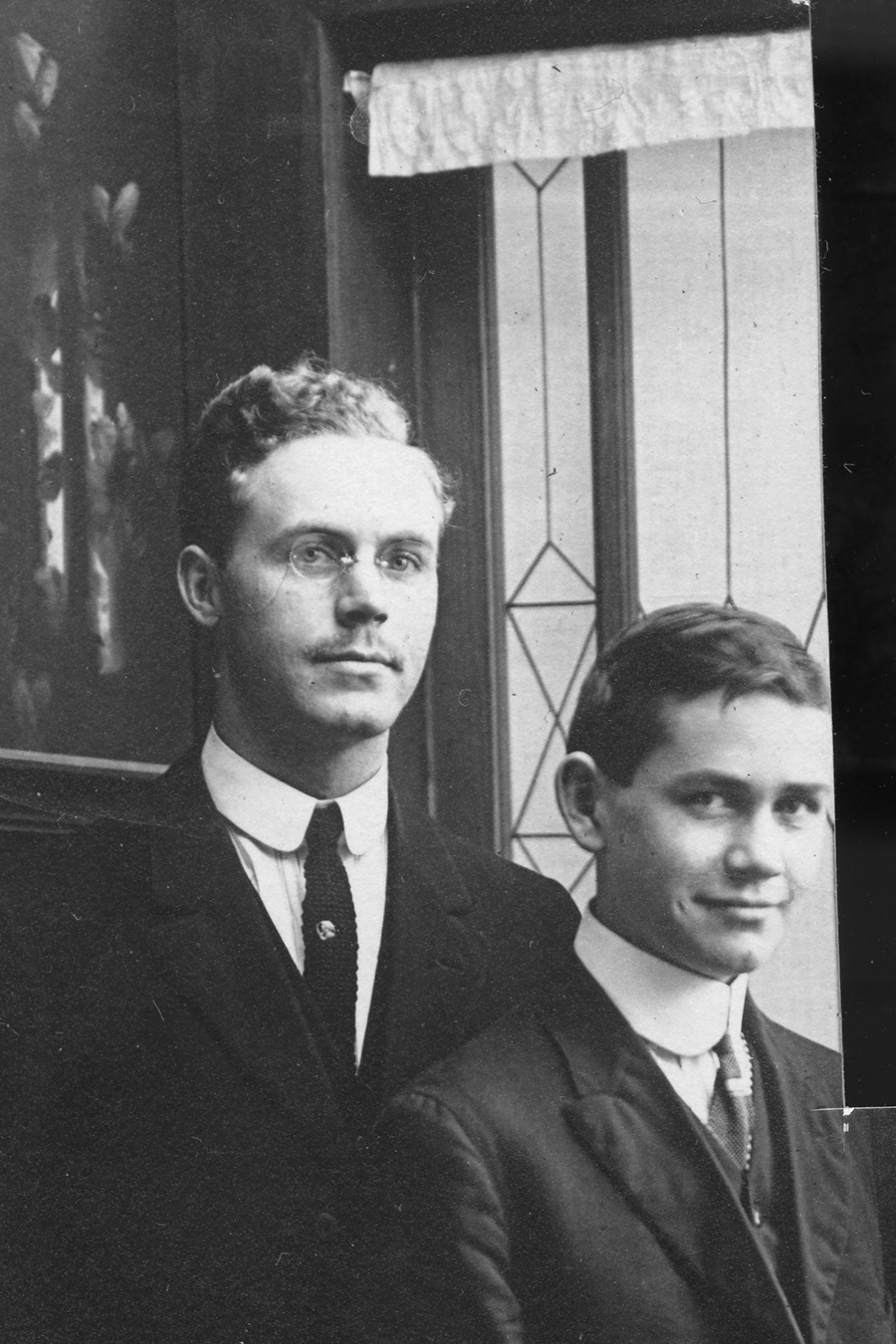 J. Leo Fairbanks and brother Avard T. Fairbanks in about 1912. J. Leo had come to New York City on vacation to visit. His younger brother Avard was studying at the Art Students League and at the Brooklyn Zoological Park, and at the Metropolitan Museum of Art. This photo and many others are used in the book, "Adventures of a Young Sculptor: The development and early life of Avard T. Fairbanks, a 20th century American sculptor."